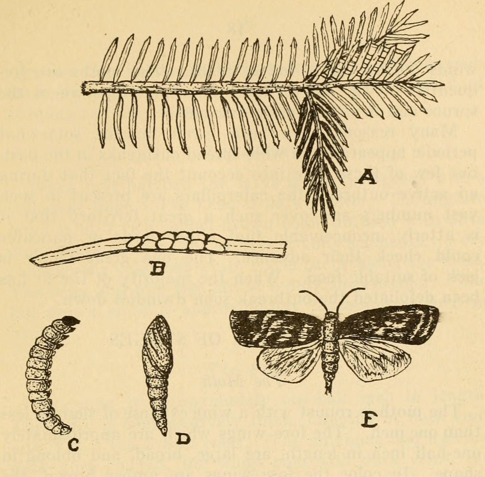 see uncropped image here File:An_annotated_list_of_the_important_North_American_forest_insects_(1909)_(18235525710).jpg